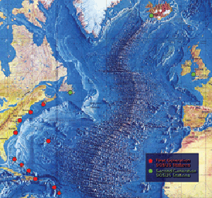 The first SOSUS stations – NAVFACs – were sited from Barbados to Nova Scotia on a huge semi-circle that opened onto the deepwater abyss west of the Mid-Atlantic Ridge. Later, additional Atlantic-area stations were established at Argentia, Newfoundland, Keflavik, Iceland, and Brawdy, Wales.